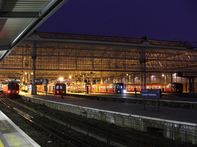 early morning departures Waterloo Station October 2007